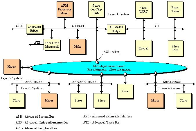 AMBA-3 bus hierarchy